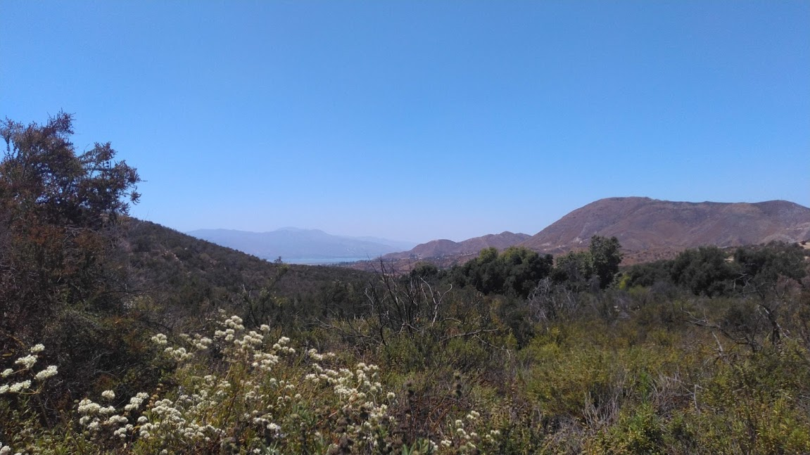 View of chaparral, looking towards Lake Elsinore in Riverside County, California.